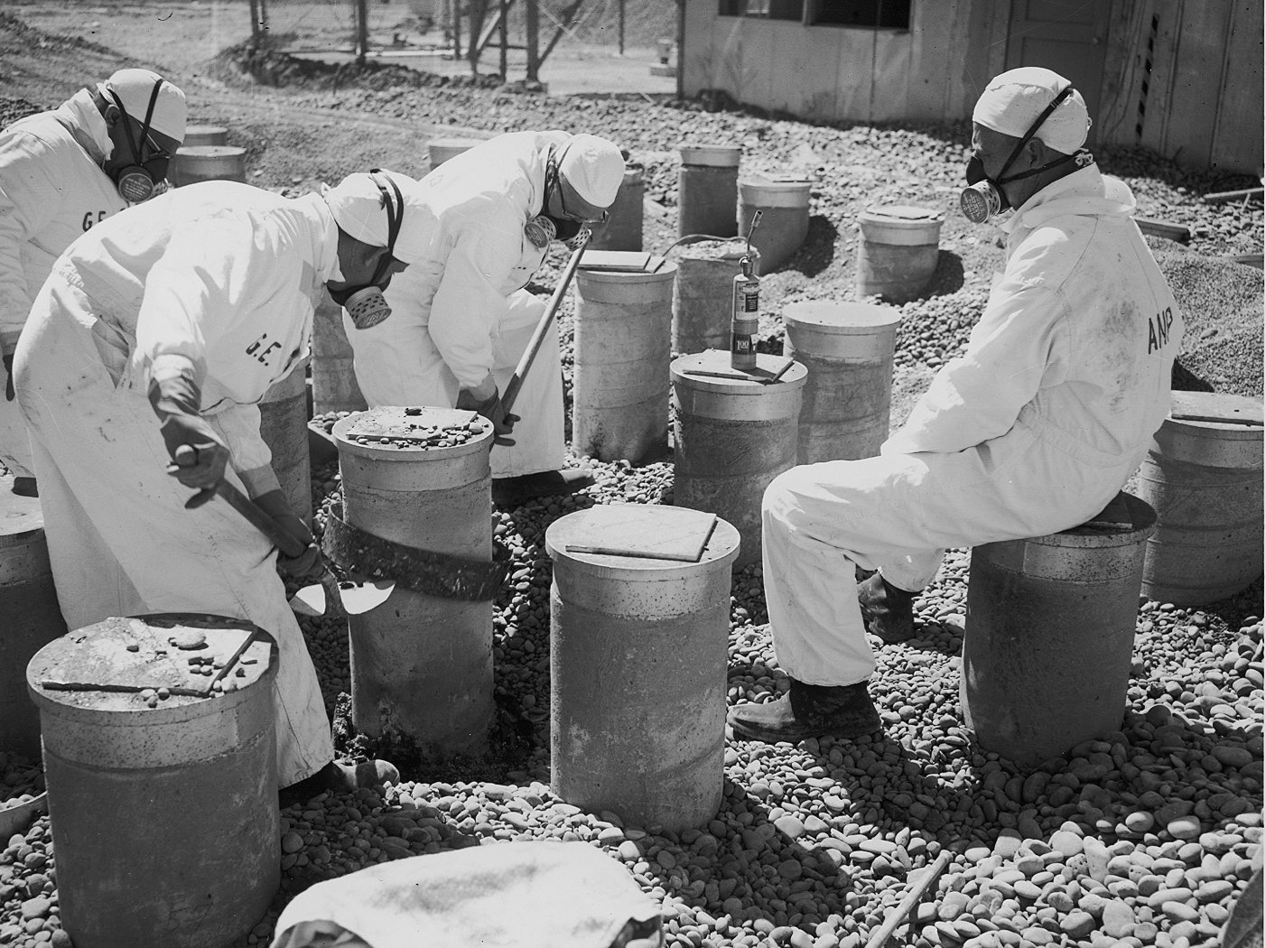 SL-1 Reactor - dismantling of the foundation piers. The original caption reads: Dismantling the SL-1 foundation piers required the use of shaped charges. Here crew wires caps to charges. (INEEL 67-2587)